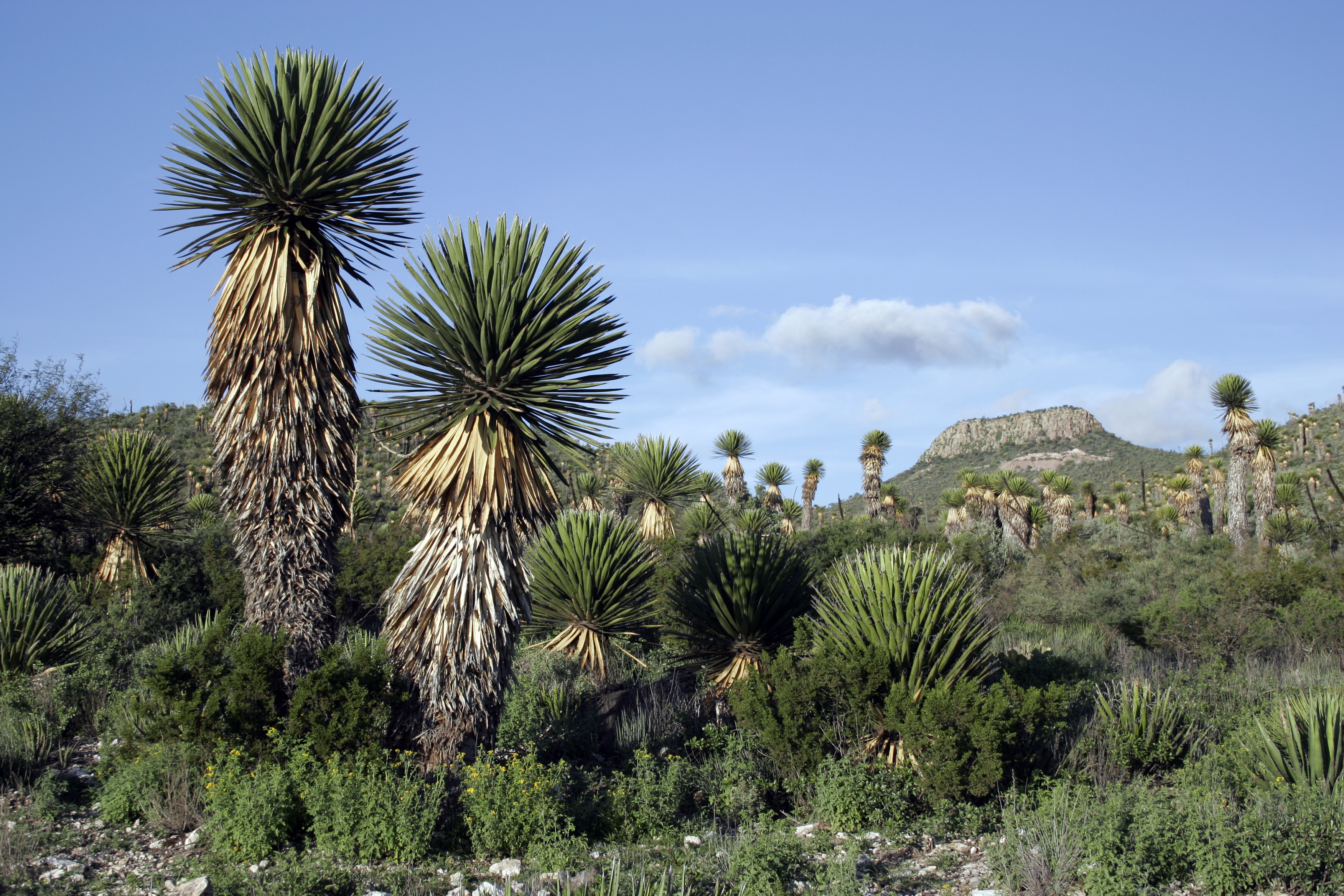 Yucca forest in San Luis Potosi, Mexico